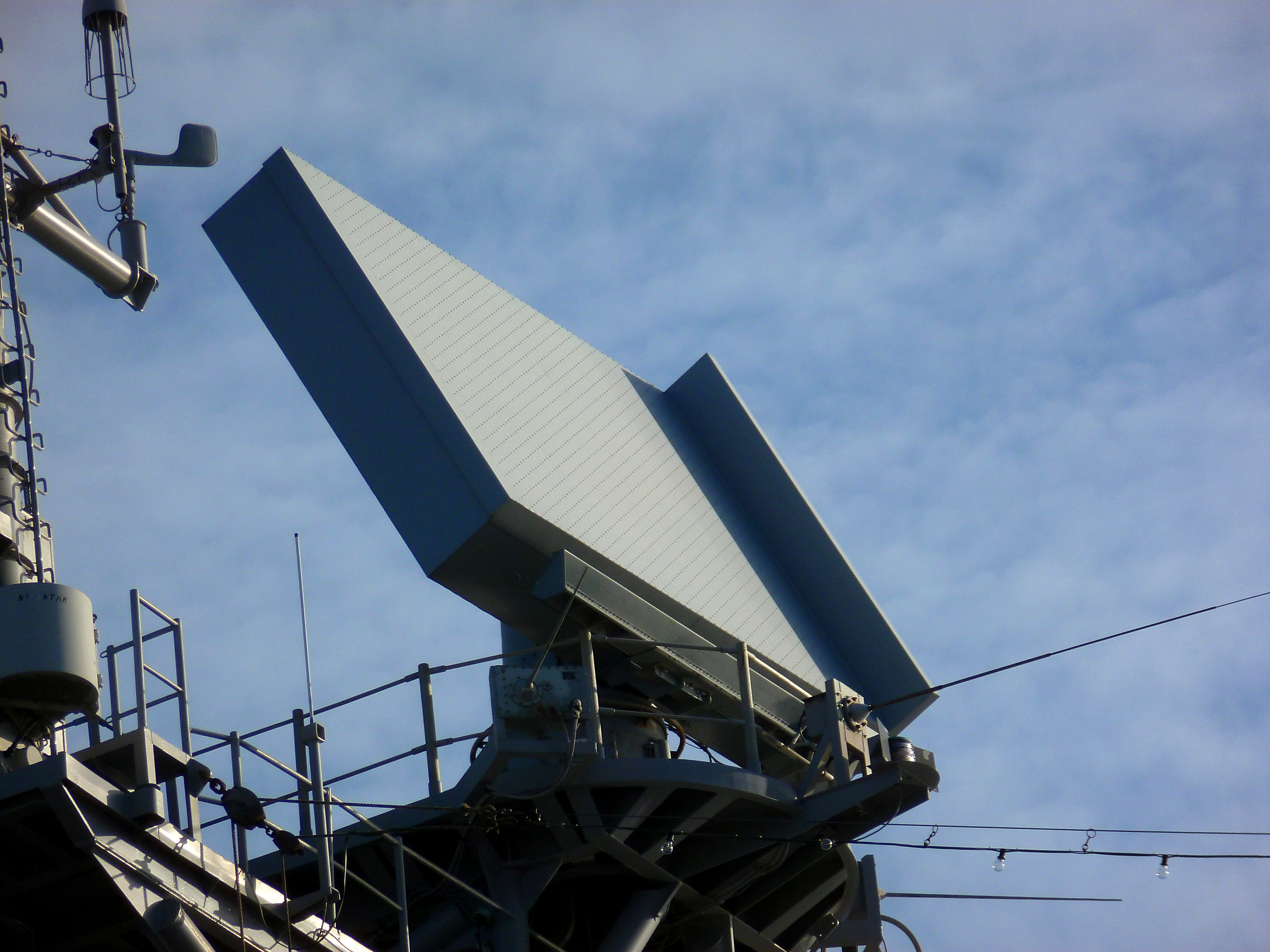 AN/SPS-52C 3-D radar of the Spanish Navy aircraft carrier "Príncipe de Asturias", R-11.